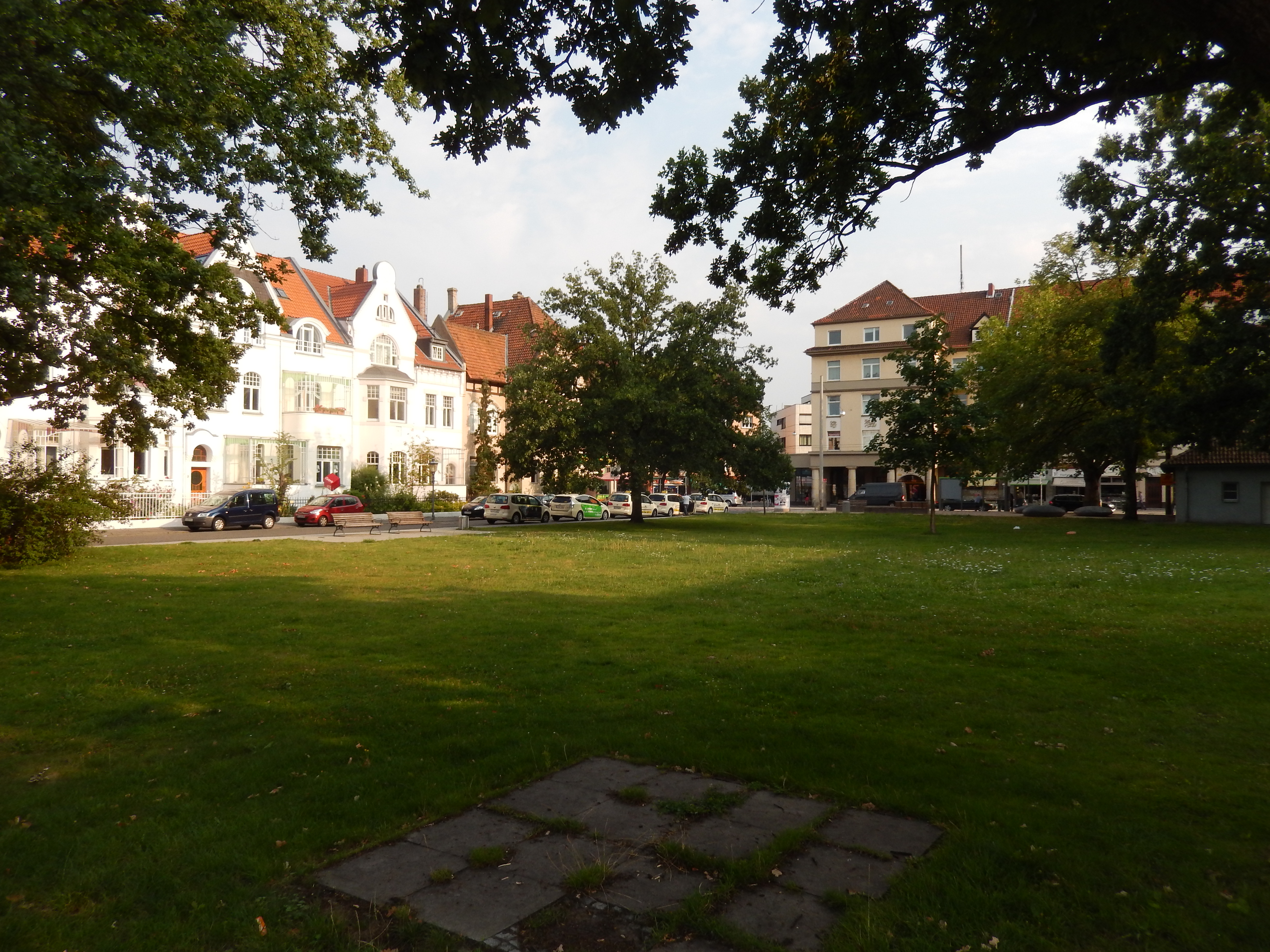 Kantplatz in Hannover, Germany.